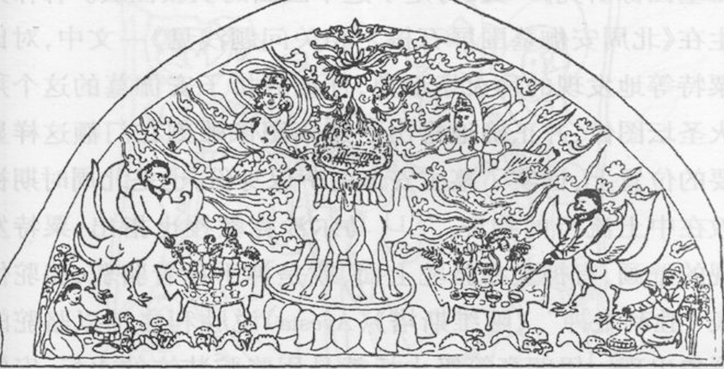 Priest-birds on the stone tympanum above the doorway of tomb of An Chia.